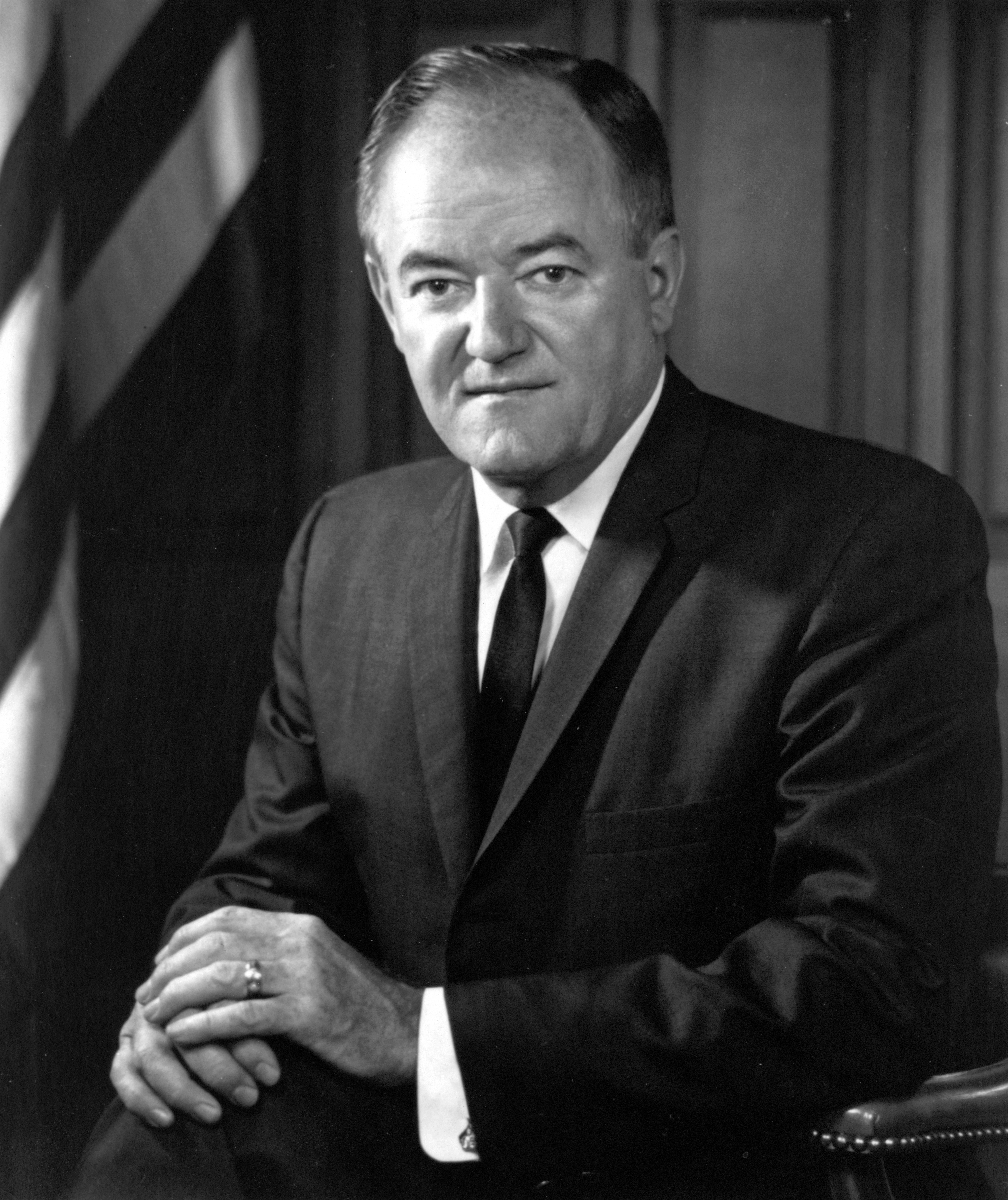 Hubert Humphrey's vice presidential portrait